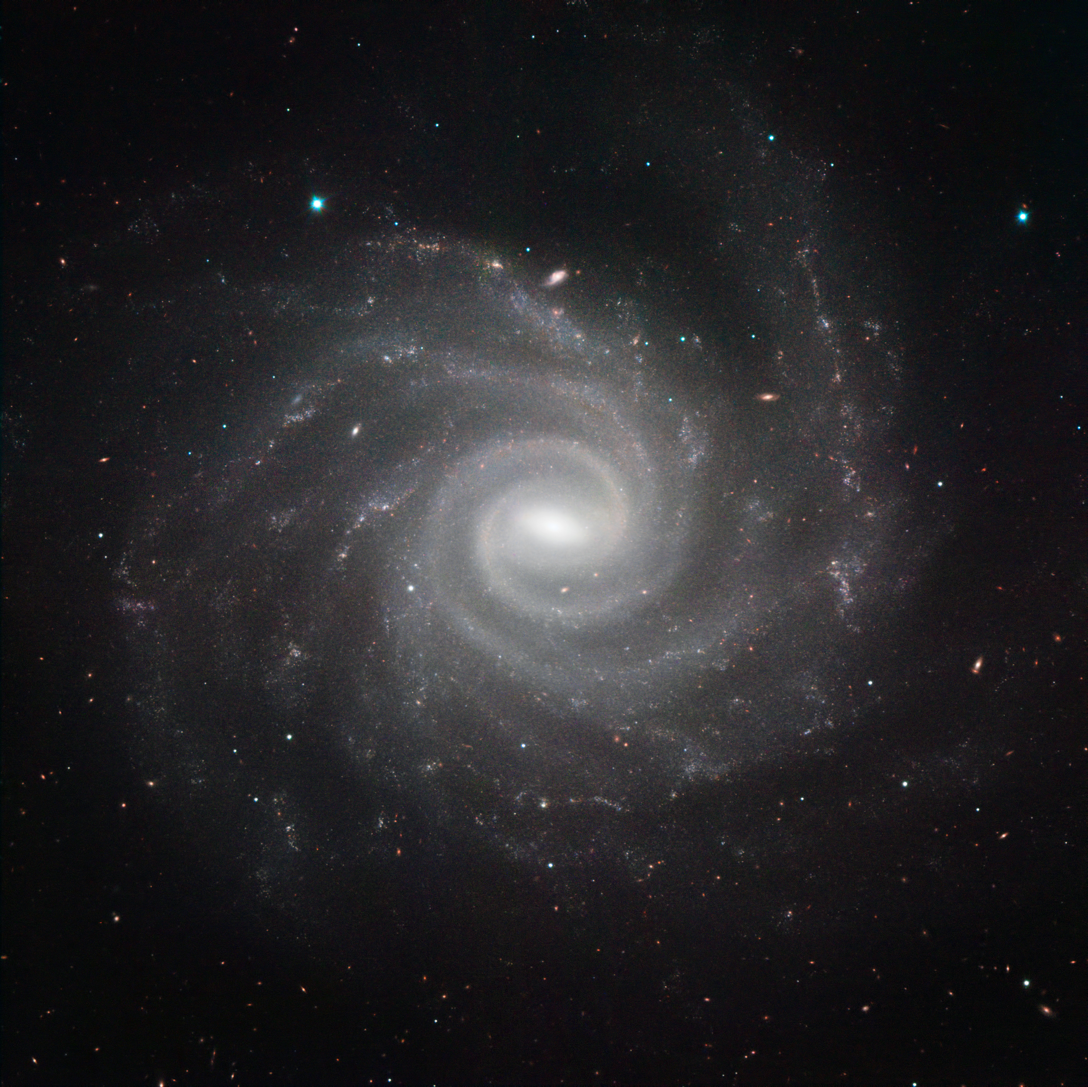 NGC 1232 is a spiral galaxy some 65 million light-years away in the constellation of Eridanus (the River). The galaxy is classified as an intermediate spiral galaxy — somewhere between a barred and an unbarred spiral galaxy. An image of this galaxy and its small companion galaxy NGC 1232A in visible light was one of the first produced by ESO’s Very Large Telescope (VLT). HAWK-I has now returned to NGC 1232 to show a different view of it at near-infrared wavelengths. HAWK-I is one of the most powerful infrared imagers in the world, and this is one of the sharpest and most detailed pictures of this galaxy ever taken from Earth. The filters used were Y (shown in blue), J (in green), H (in muddy brown), and K (in red). The field of view of the image is about 6.4 arcminutes.